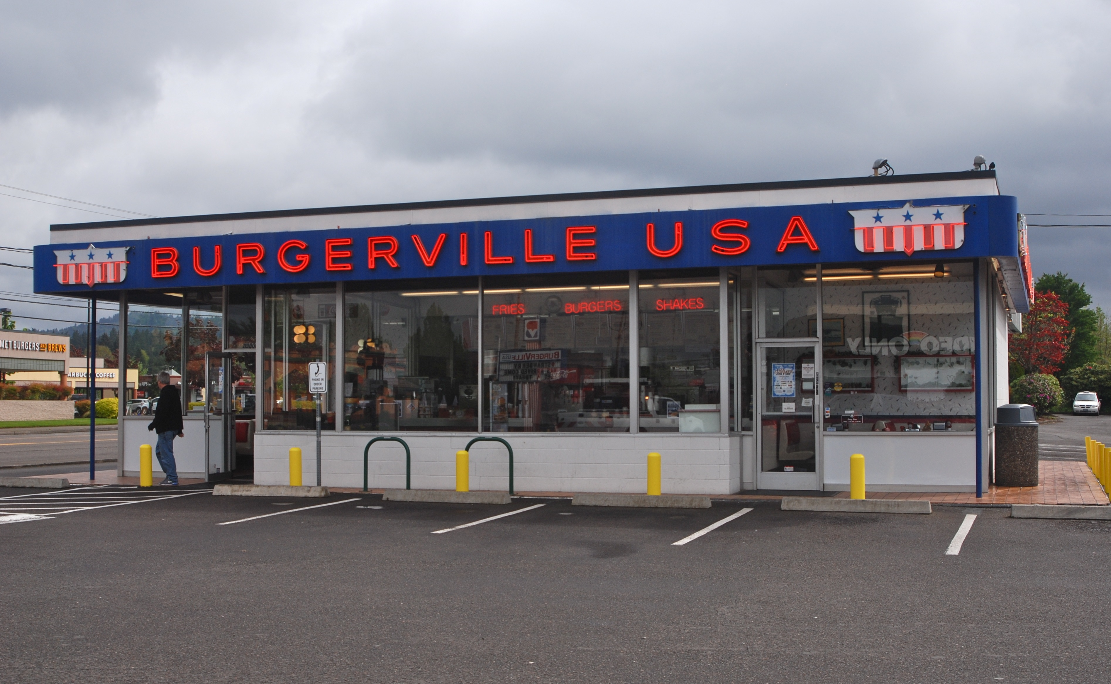 The Burgerville restaurant on Canyon Road in central Beaverton was opened in 1969. When captured in this 2015 photo, 46 years later, the restaurant retained its original or near-original appearance. However, it closed in 2019.